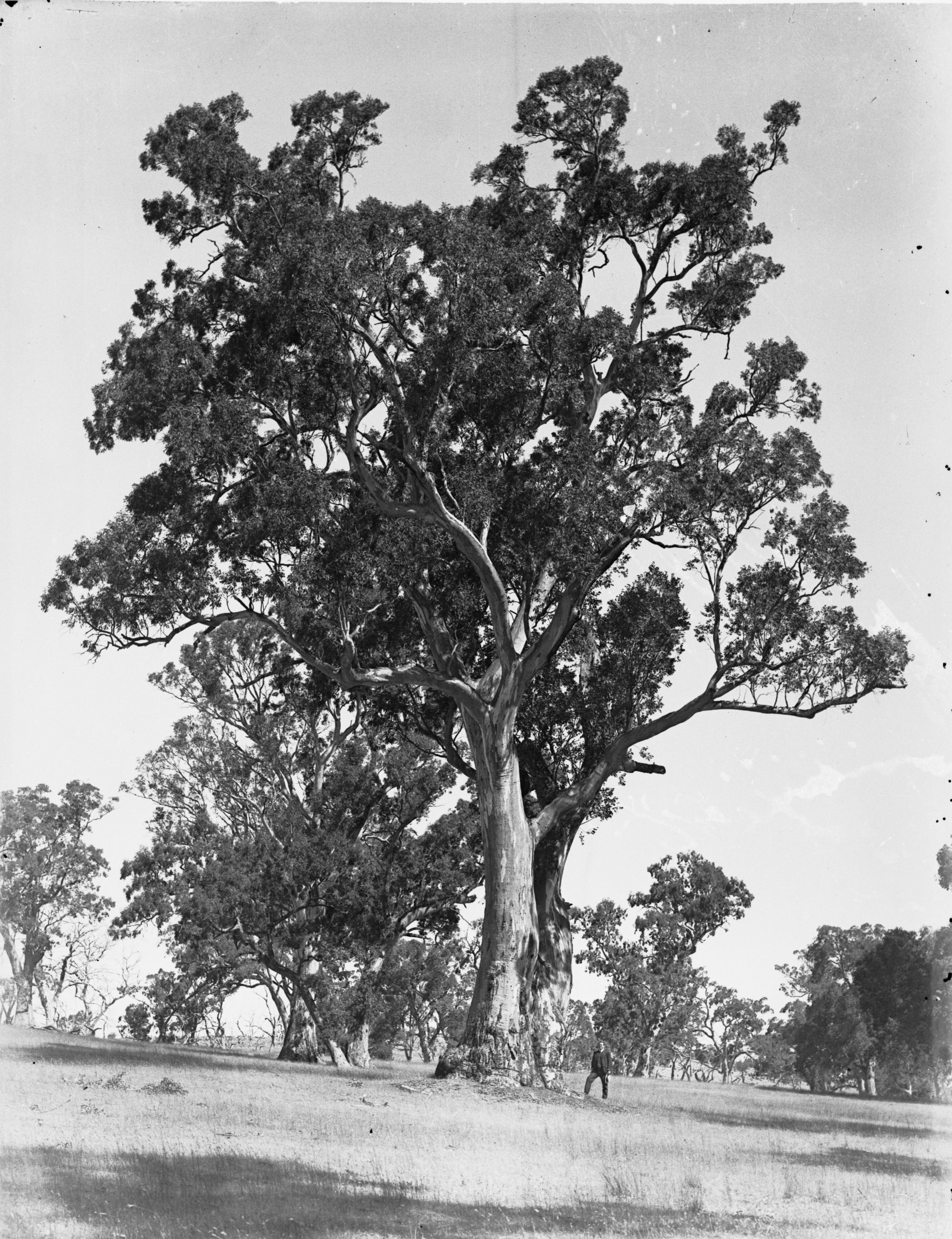 Location Unknown - Index negative 1622A is captioned: Glenelg River, Donovans. Same date as GN08526 etc, March 1932. (G Brooks)